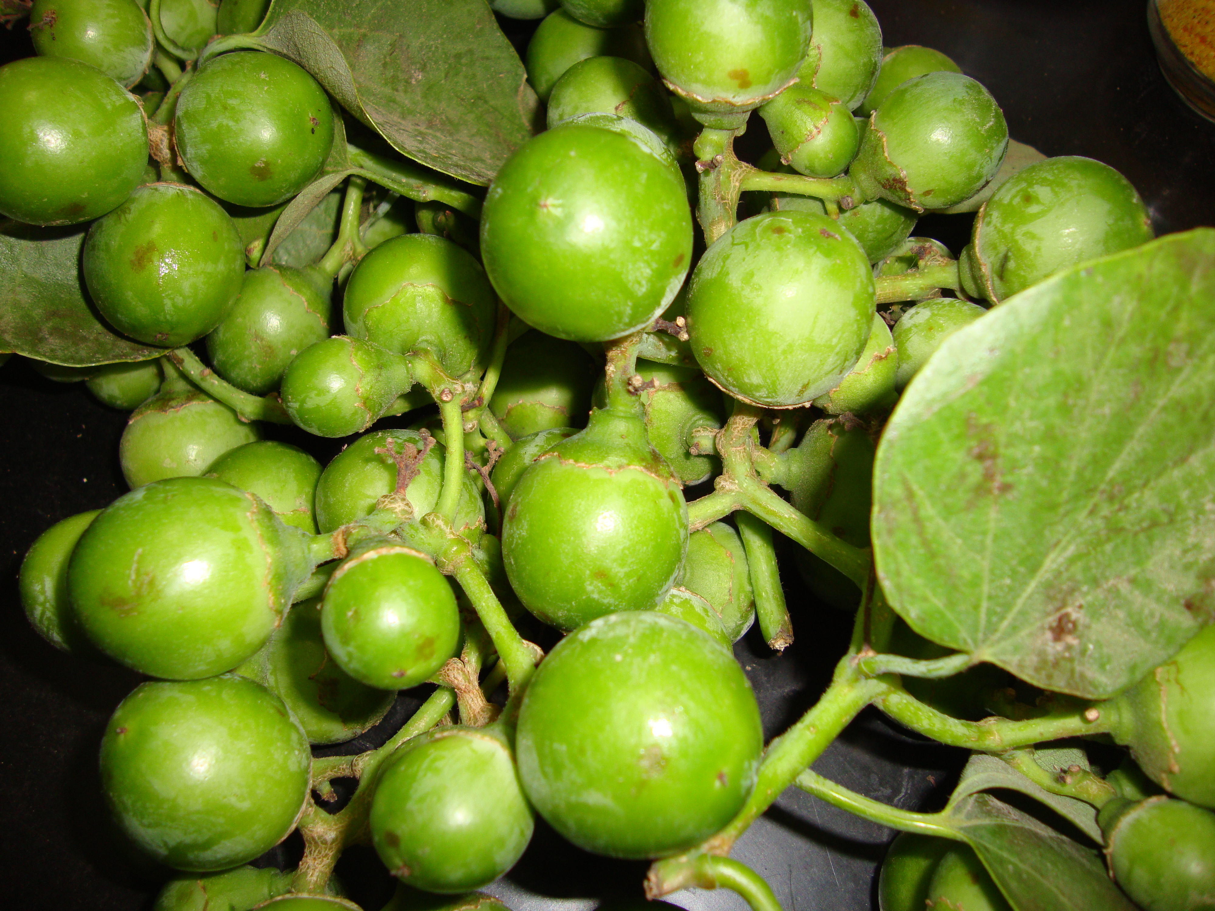 Glue Berry (cordia myxa), Gujarati lang: 'Gunda' (ગુંદા).ગુજરાતી: "ગુંદા" (Glue Berry), એક ચીકણો ગુંદરયુક્ત તુરો સ્વાદ ધરાવતું ફળ છે. મહદાંશે અથાણા બનાવવામાં વપરાય છે.